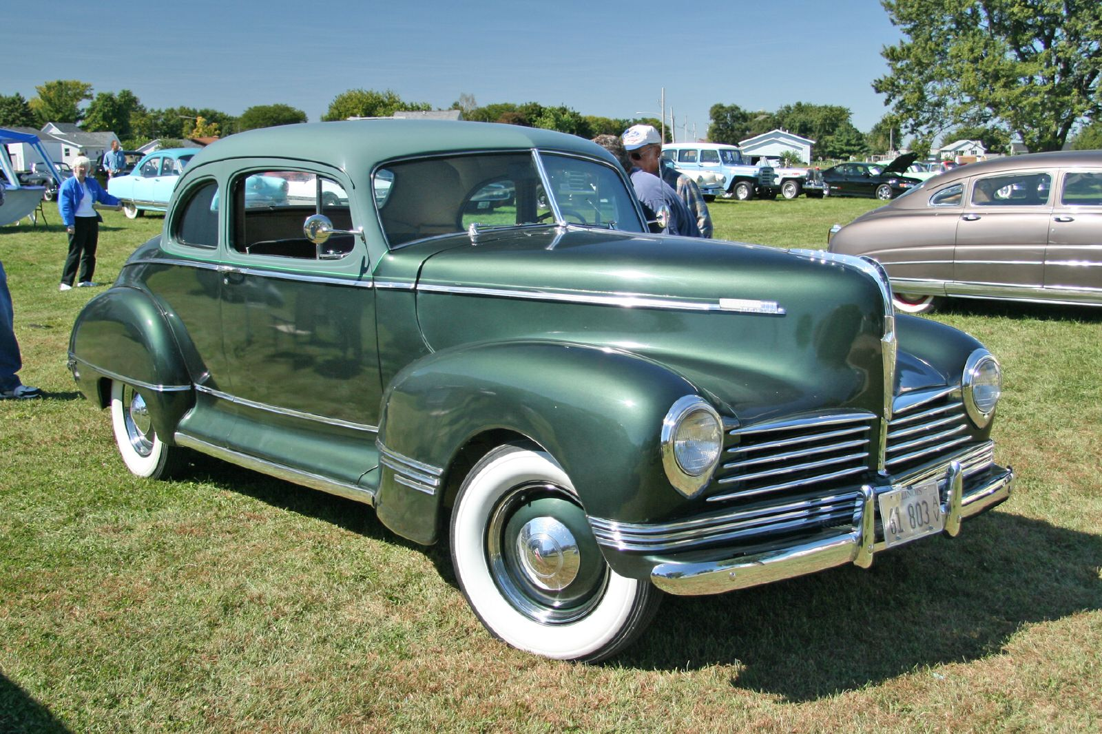 1942 Hudson Business Coup